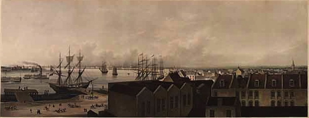 View of New Orleans, taken from the Lower Cotton Press. 1850 The "Lower Cotton Press" or "Levee Steam Cotton Press" was a large industrial structure which used steam power to compress cotton bales for shipping. It was located at the foot of Press Street (the origin of the street's name) at the lower end of the Faubourg Marigny neighborhood. The view is looking upriver.